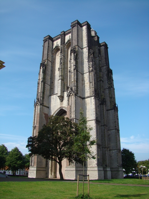 Impressions of Zierikzee Netherlands